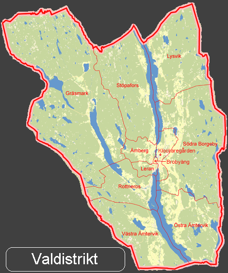 Created by myself.